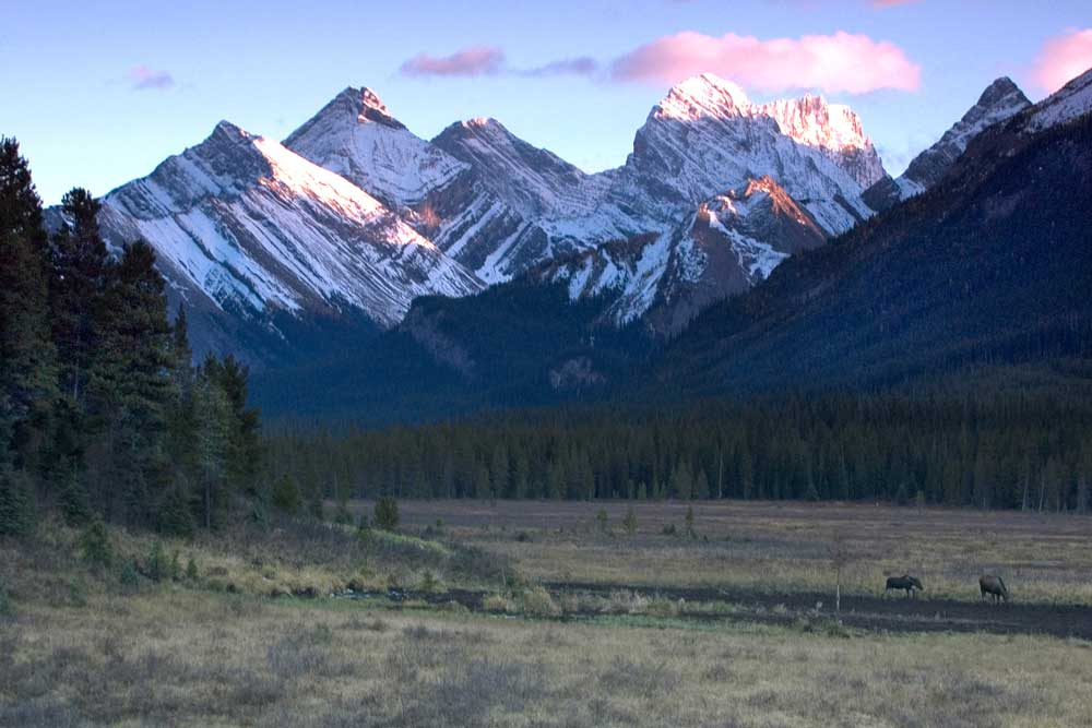 Spray Valley Provincial Park, Alberta Canada. Taken by Chuck Szmurlo in the evening of September 23, 2006 looking southwest from near Mt. Engadine Lodge. Nikon D70 with Nikon 70-200 f2.8 lens and 3 stop hard graduated neutral density filter.